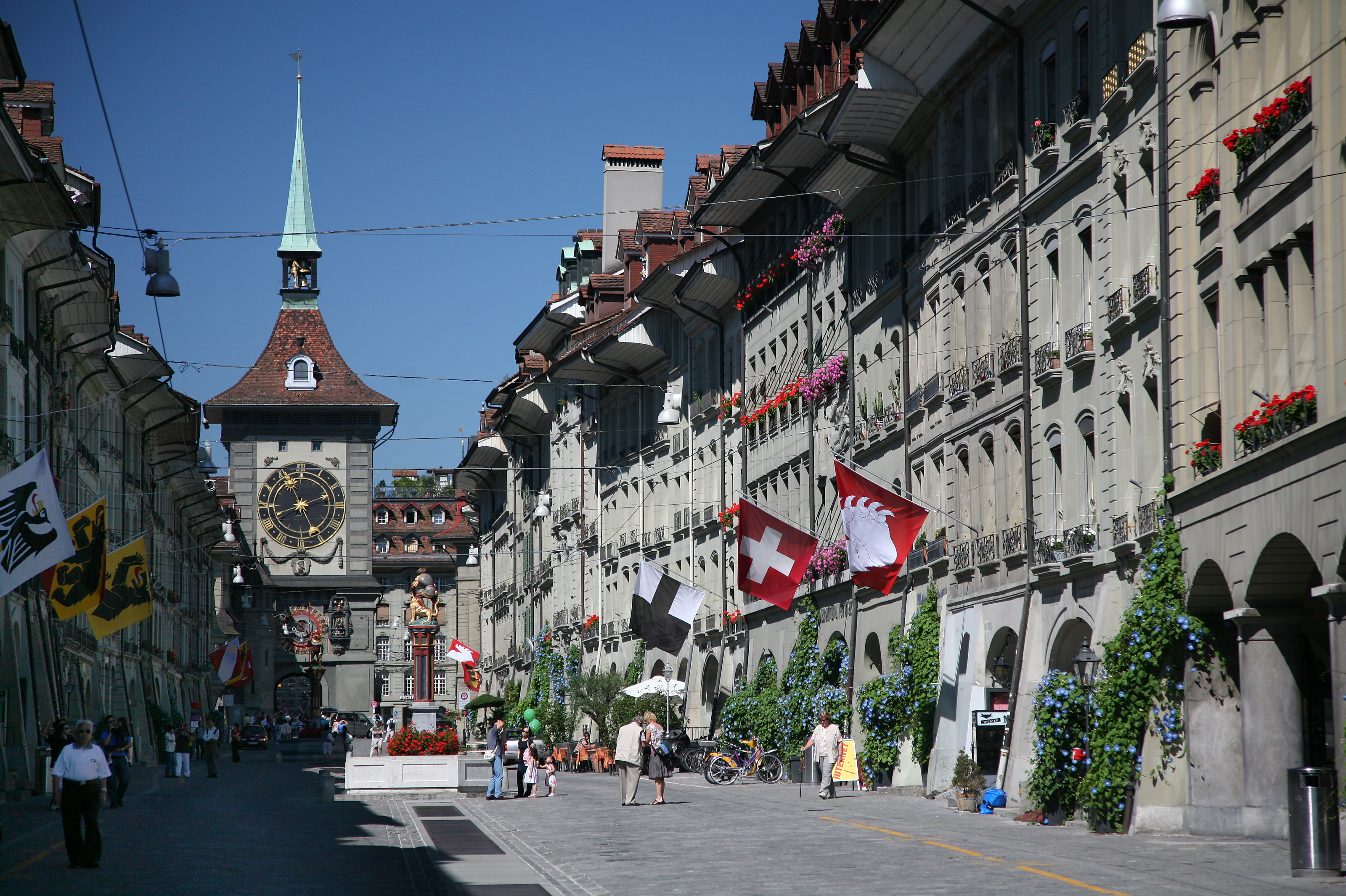 Kramgasse (grocer's lane) with Zytglogge clock tower, Berne, Switzerland. Zähringer fountain in the foreground.